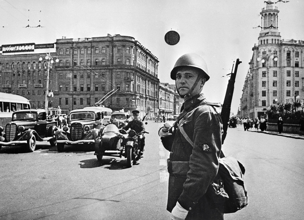 “A policemen on Gorky street”. A policemen on Gorky street. Moscow, Russia.